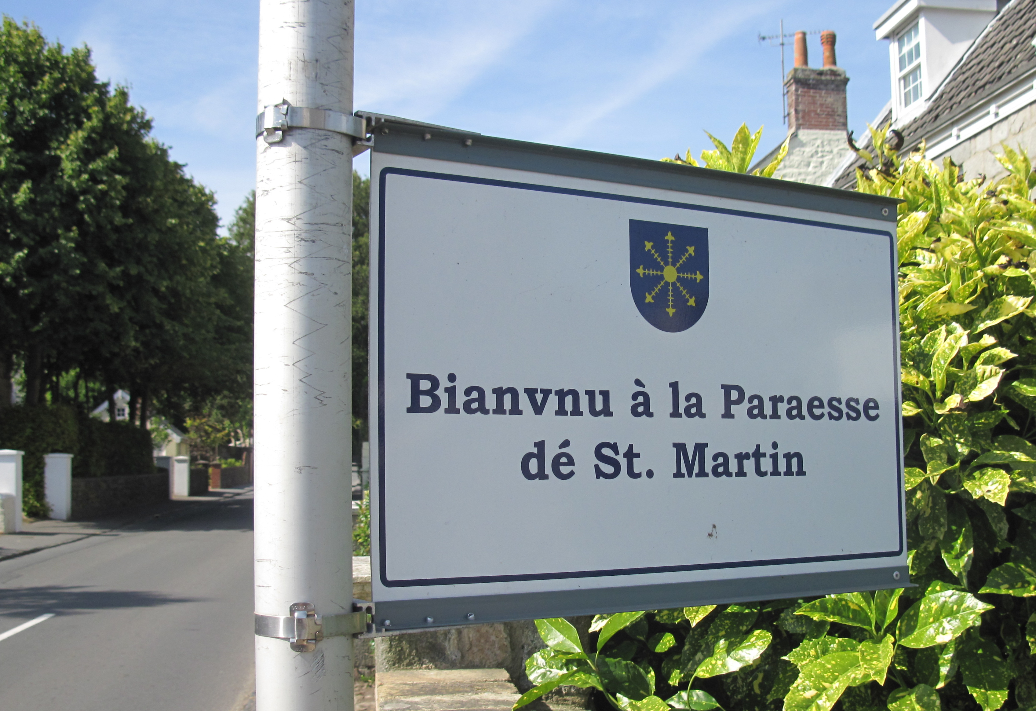 Guernsey, June-July 2011. The sign reads "Welcome to Saint-Martin parish" in Jèrriais